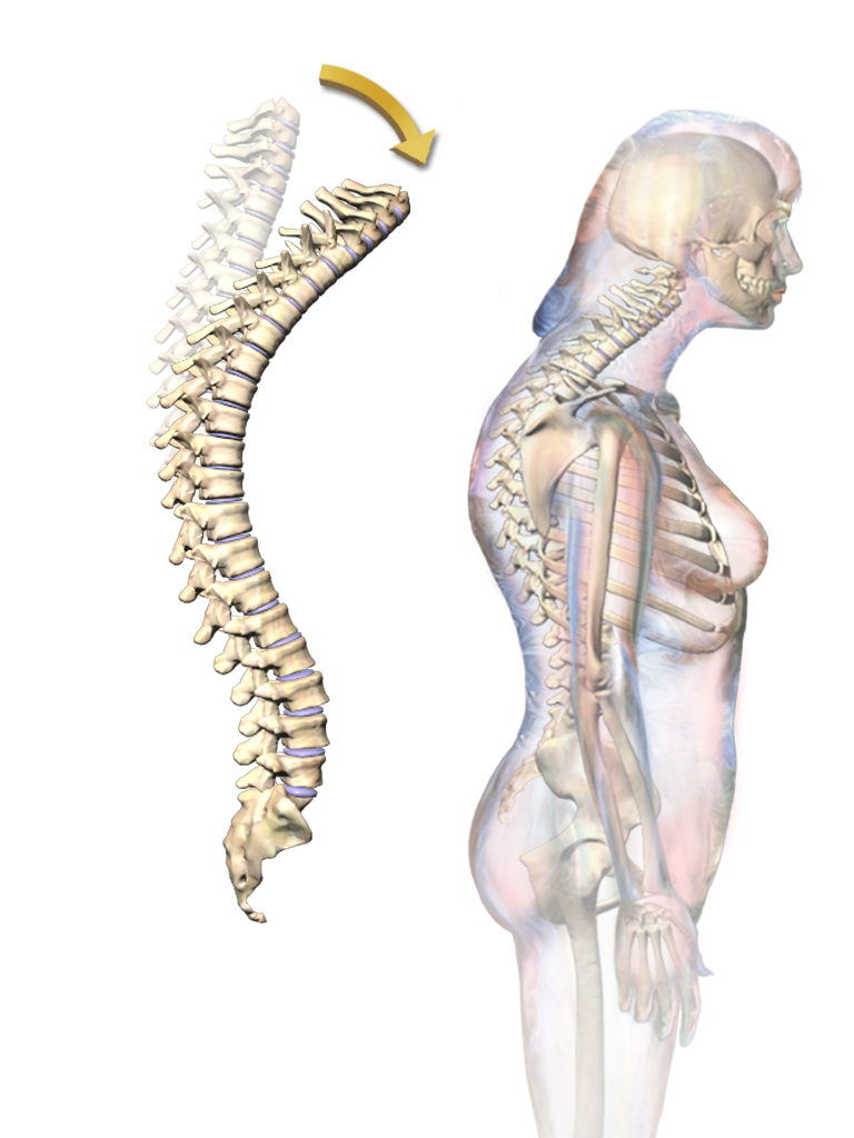 A medical illustration depicting kyphosis.